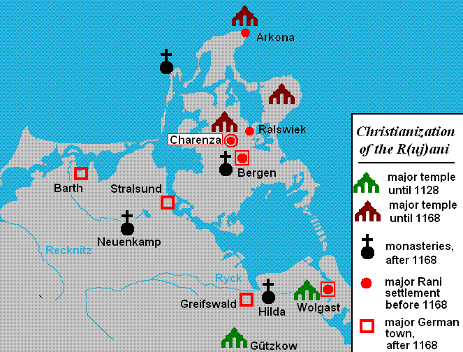 Temples and monasteries in NW Pomerania.